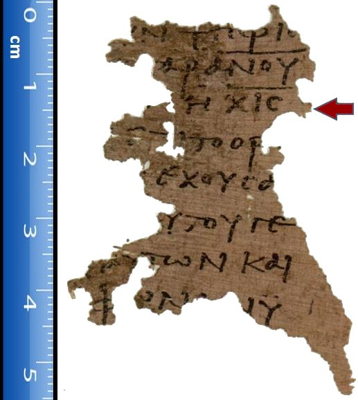 Oxyrhynchus Papyri 4499/P115. This volume of Oxyrhynchus Papyri contains a fragmentary papyrus of Revelation which is the earliest known witness to some sections (late third / early fourth century). One feature of particular interest is the number that this papyrus assigns to the Beast: 616, rather than the usual 666. (665 is also found.) We knew that this variant existed: Irenaeus cites (and refutes) it. But this is the earliest instance that has so far been found. The number — chi, iota, stigma (hexakosiai deka hex) — is in the third line of the fragment shown below.